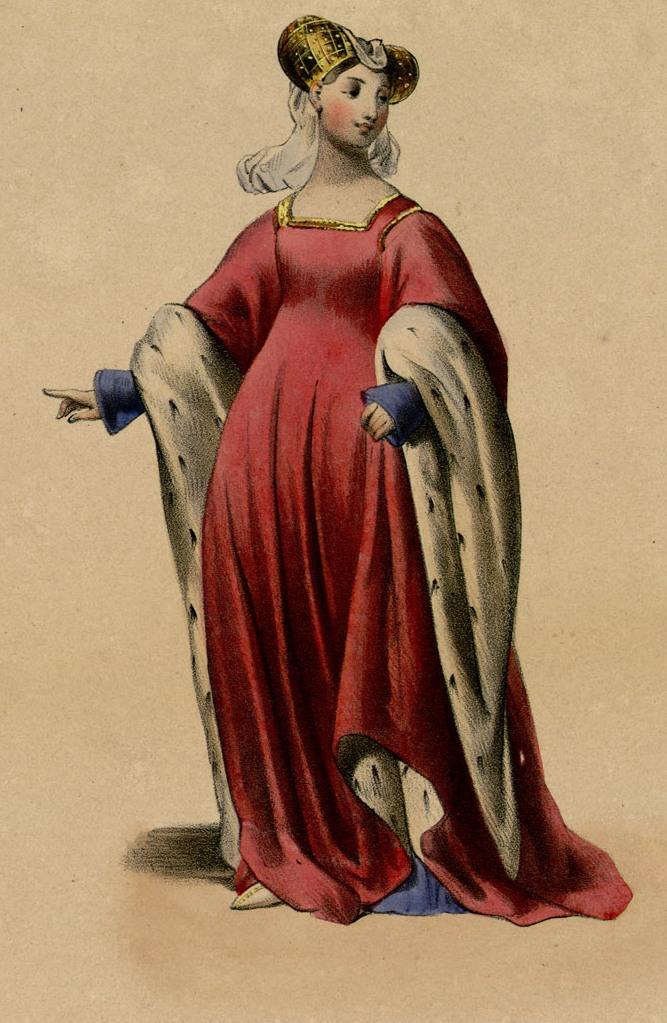 A representation of the Occitan countess Joana I de Tolosa